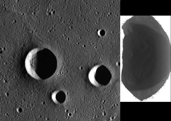 Left image (EW0242004745G) shows Angelou crater at left. At right is a broadband image (EW1067153675B) of the interior, shadowed part of Angelou. MESSENGER Wide Angle Camera. Left image date: 2012-04-04, right image: 2015-02-25 Statistics for left image: Emission Angle: 0.2 Incidence Angle: 80.3 Latitude: 80.1 Longitude: 294.0 Phase Angle: 80.4